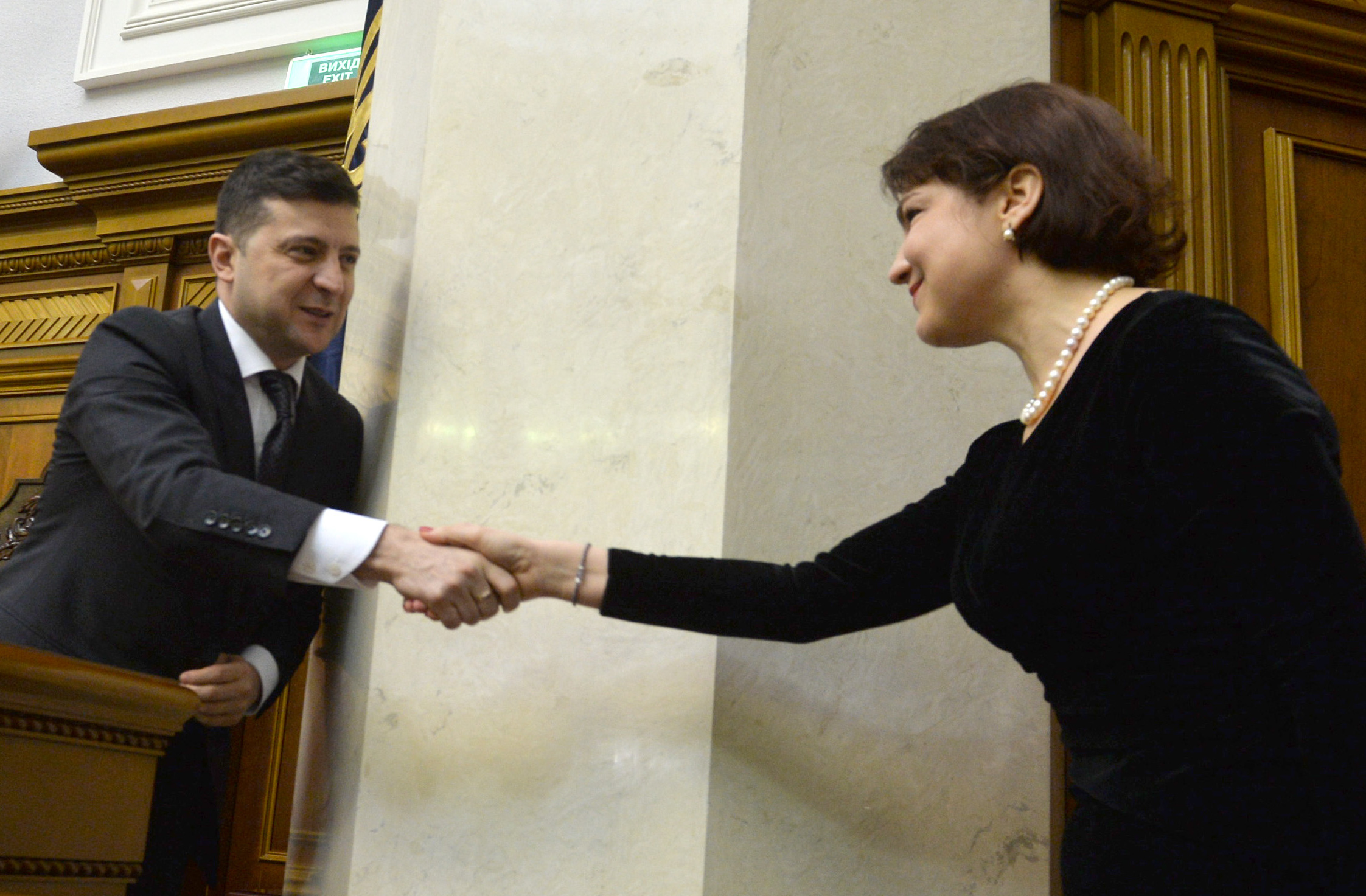 Venediktova and Zelensky